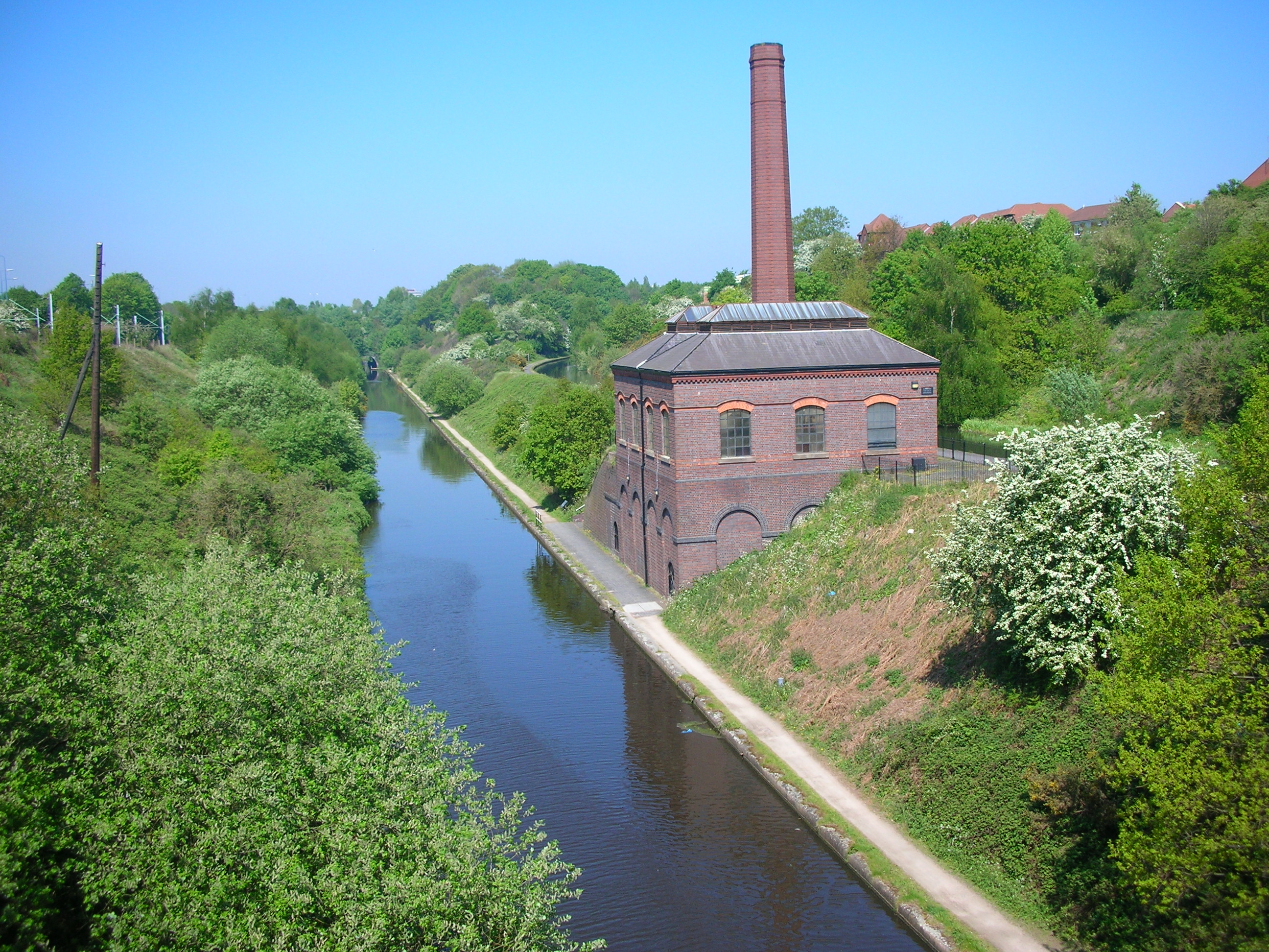 Smethwick New Pumping Station, Brasshouse Lane, Smethwick, West Midlands. The building is between the old and new lines of the BCN Main Line near Brasshouse Lane bridge, Smethwick, West Midlands, England. The engine pumped water from the lower canal (Birmingham Level) to the upper (Wolverhampton Level) in order to supply the locks at the Smethwick Summit of the older canal, replacing the original pumping engine on the corner of Rolfe Street and Bridge Street. Photographed by me 2 May 2007. Oosoom